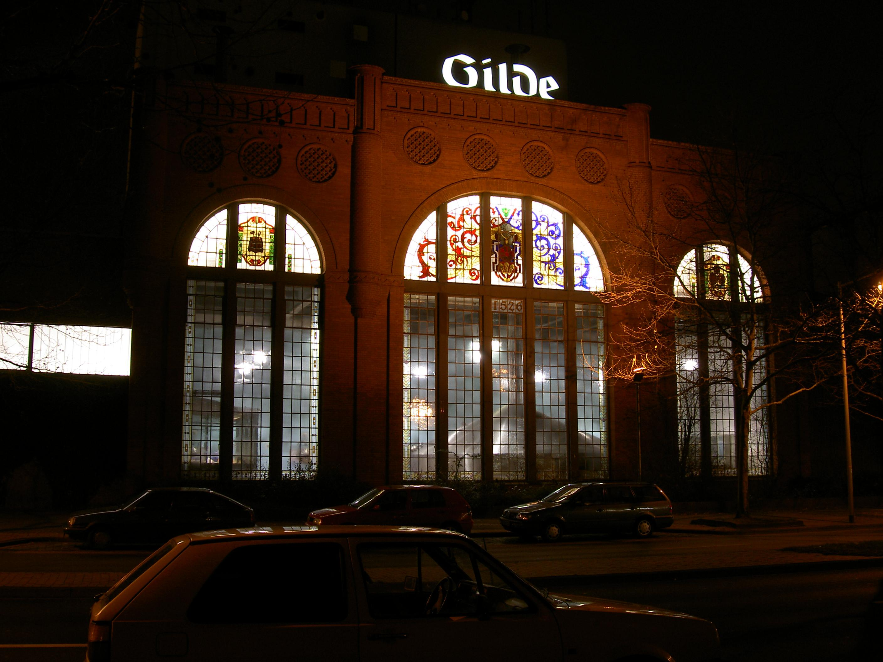 Gilde Brewery in Hannover.